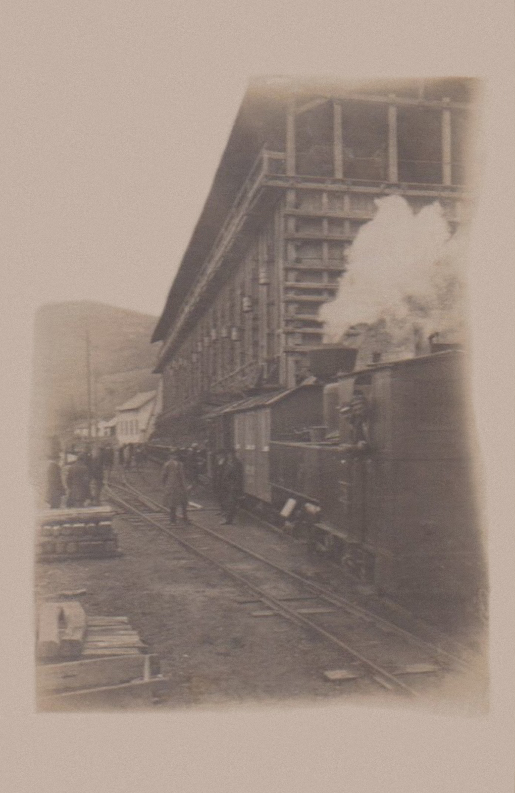 Ljubija mine facilities